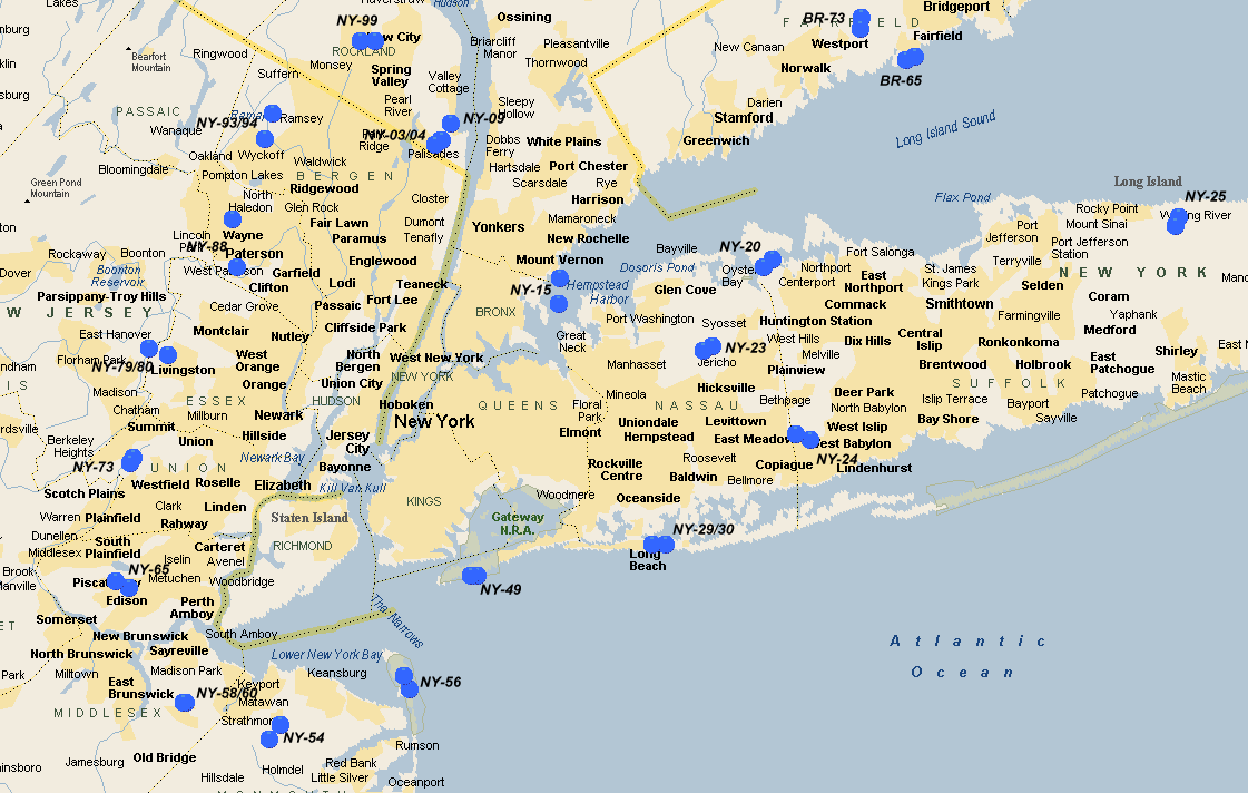 New York Defense Area Nike Missile Sites